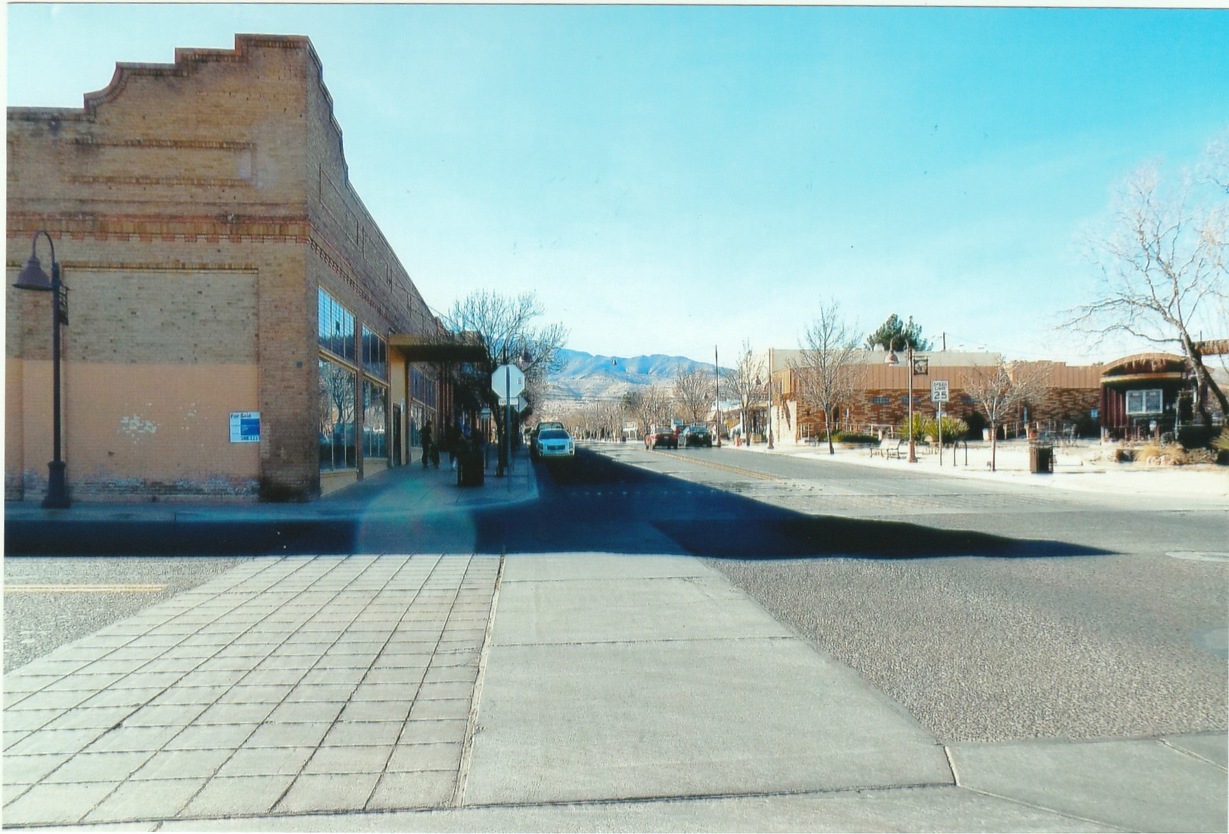 Clarkdale Historic District in Clarkdale, Az as viewed from Main Street. Listed in the National Register of Historic Places in 1998 reference #97001586.